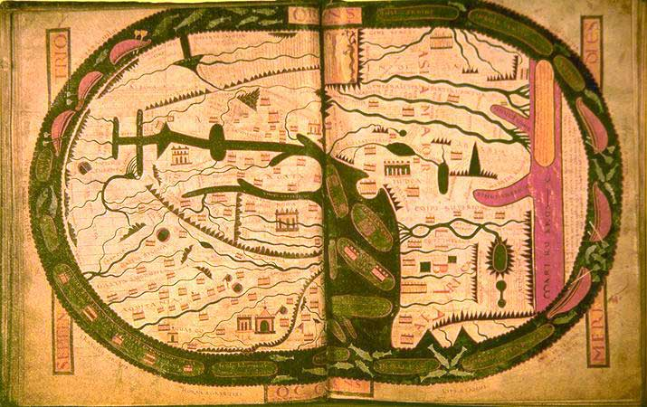 Folios 45 verso and 46 recto from the Apocalypse of Saint Sever